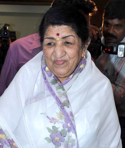 Announcement of the Master Dinanath Mangeshkar Awards 2013 winners